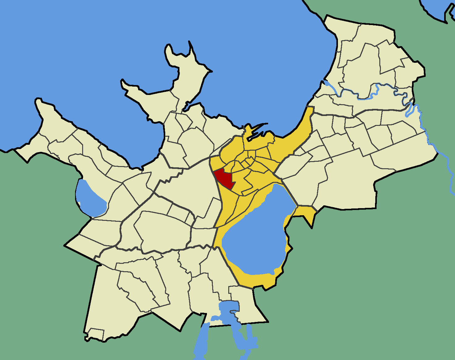 Map of Tallinn (Estonia) with borders of the quarters, Kesklinn district and Uus Maailm quarter emphasised